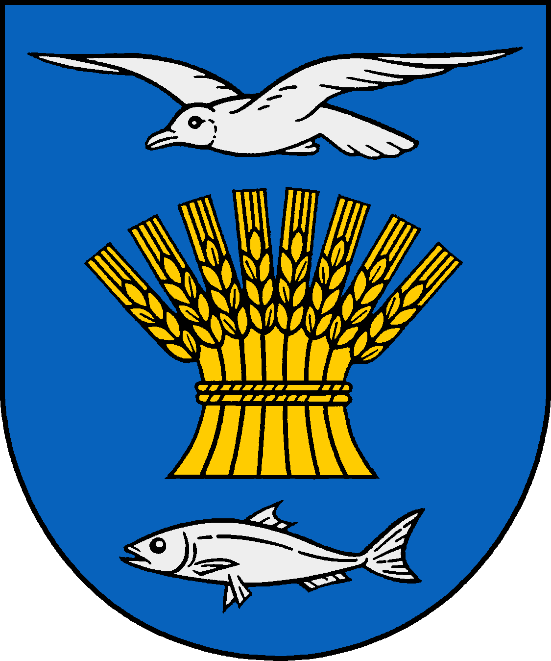 Coat of arms of the municipality Sierksdorf in Schleswig-Holstein, Germany.